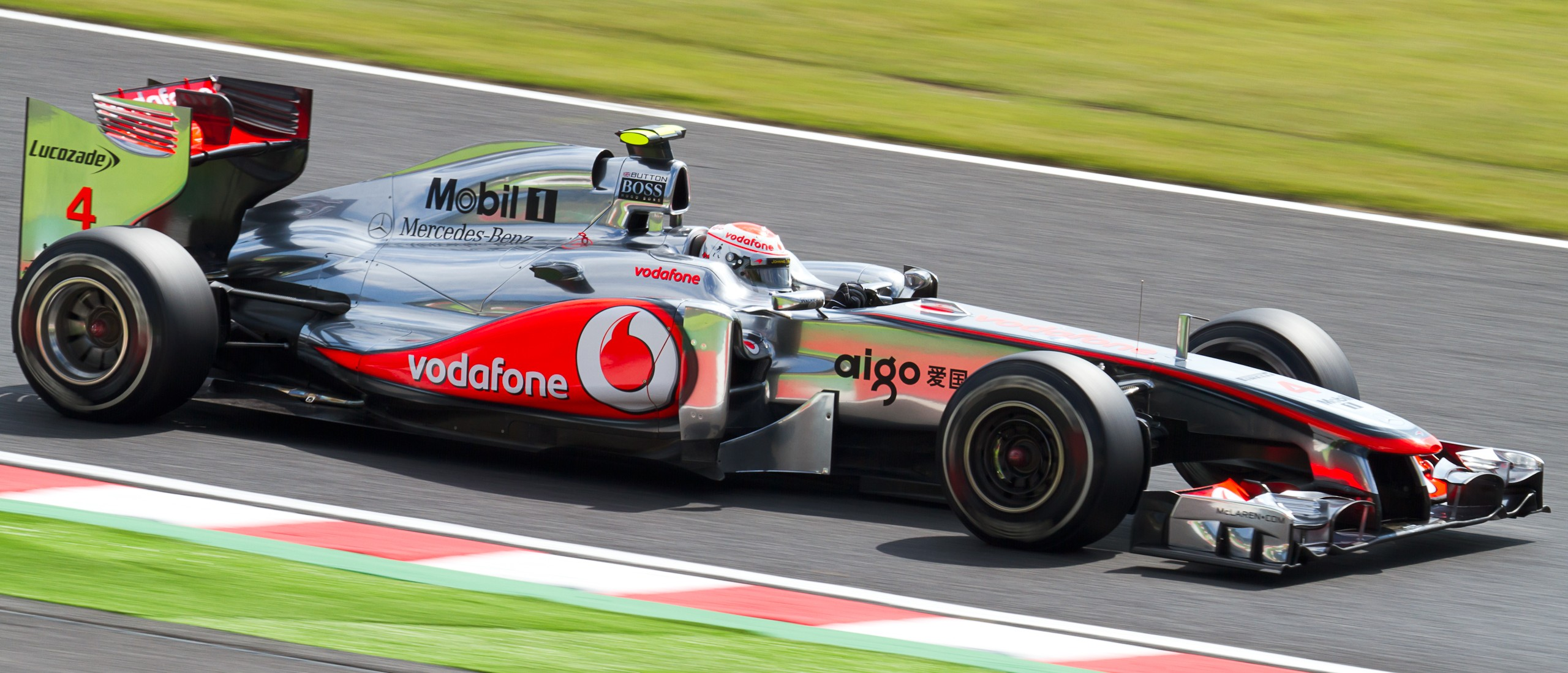 Formula One 2011 Rd.15 Japanese GP: Jenson Button (McLaren) during the first practice session on Friday.